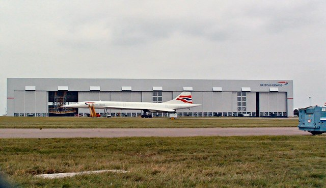 Concorde outside BA maintenance Hangar, Cardiff International airport.